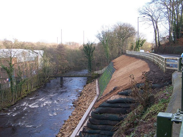 Riverbank Repairs near Middlewood Tavern This view, looking south, shows the extensive repairs to the riverbank and A6102 road, which was washed away during severe flooding in June 2007. The road was closed for 18 months, re-opening in December 2008. The bridge is the Rocher Footbridge which gives pedestrian access to the Clay Wheels Lane side of the River Don and specifically the Beeley Wood Steel Works just visible on the left side. The footbridge is many years old and replaced 'stepping stones' which would have meant a precarious walk to and from work for the Steel workers! I have spelt Beeley this was, as it matches the spelling on the OS map, but it is also seen spelled Beely ... pay your money and make your choice.